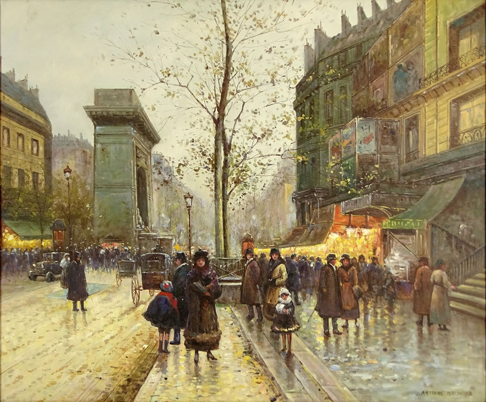 Paris street scene